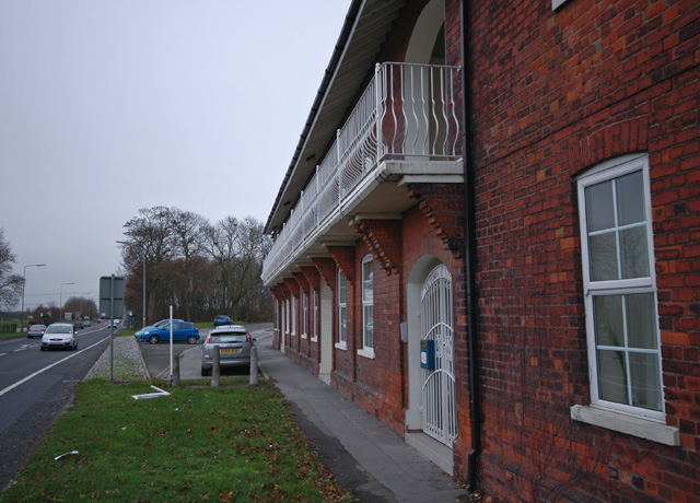 Victoria Road, Beverley, East Riding of Yorkshire, England.Victoria Road is the one curving away to the right of the picture; the A164 is on the left. To the right are Victoria Cottages, a row of nine houses built in 1883 as part of former whiting works.